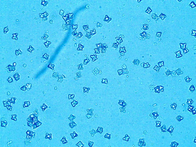 Entoloma conferendum Location: Lewis and Clark National Historical Park, Astoria, Oregon, USA Observation Notes: I cannot find any more information on this species other than the notes in Aurora given under the Nolanea sericea group. The spores seem pretty convincing, but if anyone has any more information on this species, it would help me feel more certain of my identification. thanks![admin – Sat Aug 14 02:02:20 0000 2010]: Changed location name from ‘Lewis and Clark National Historical Park, Astoria, Oregon’ to ‘Lewis and Clark National Historical Park, Astoria, Oregon, USA’ Image Notes: “cruciate-nodulose” spores For more information about this, see the observation page at Mushroom Observer.